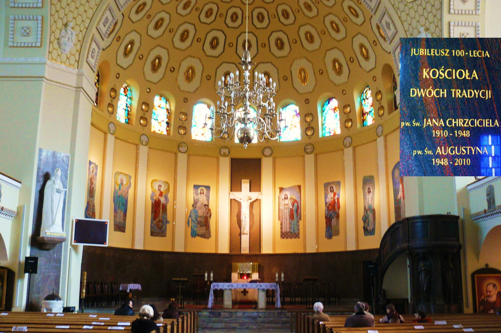 Wroclaw - s. Augustin Church, interior.